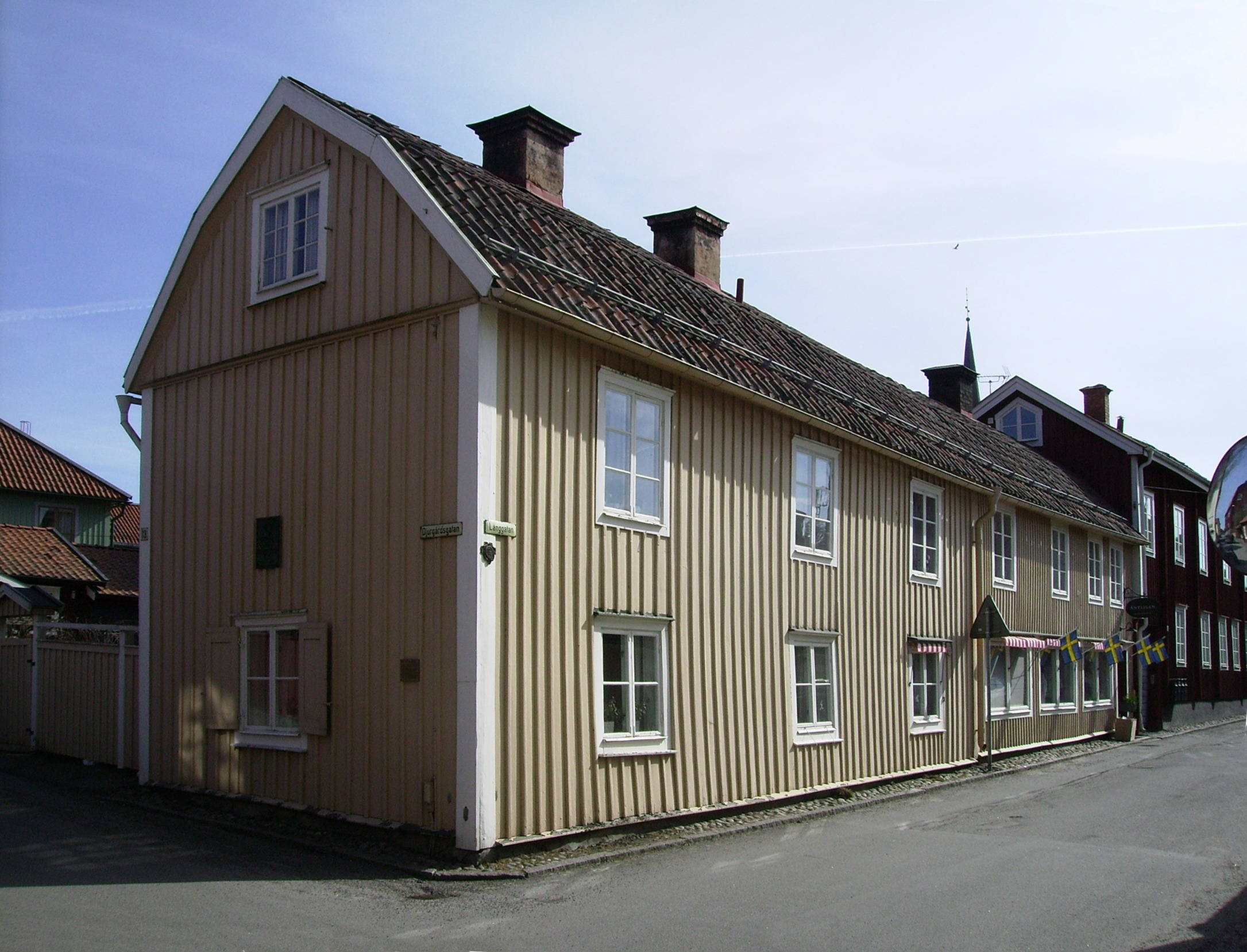 Bellmansgarden in Mariefred. March 2009.